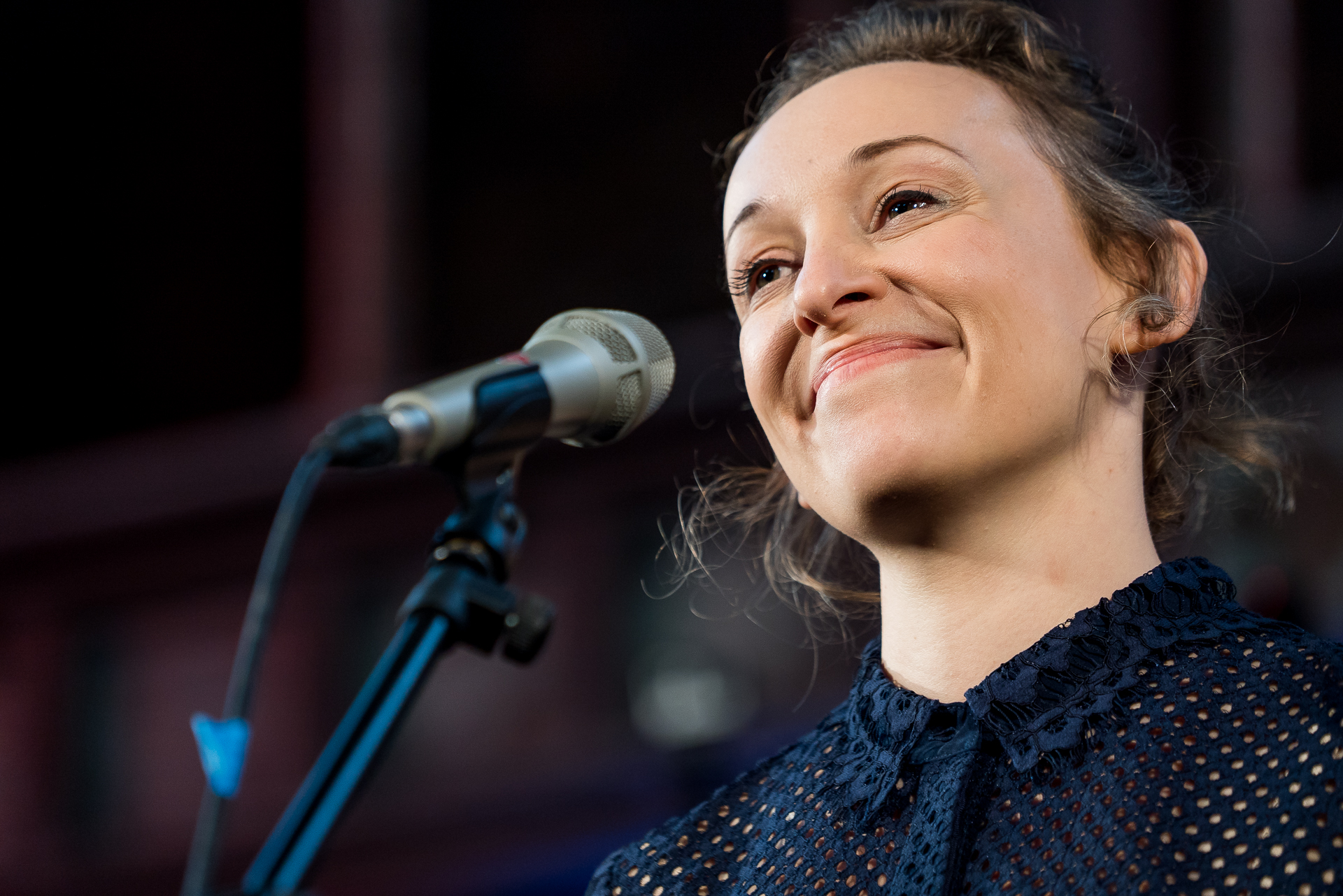 Ana Silvera